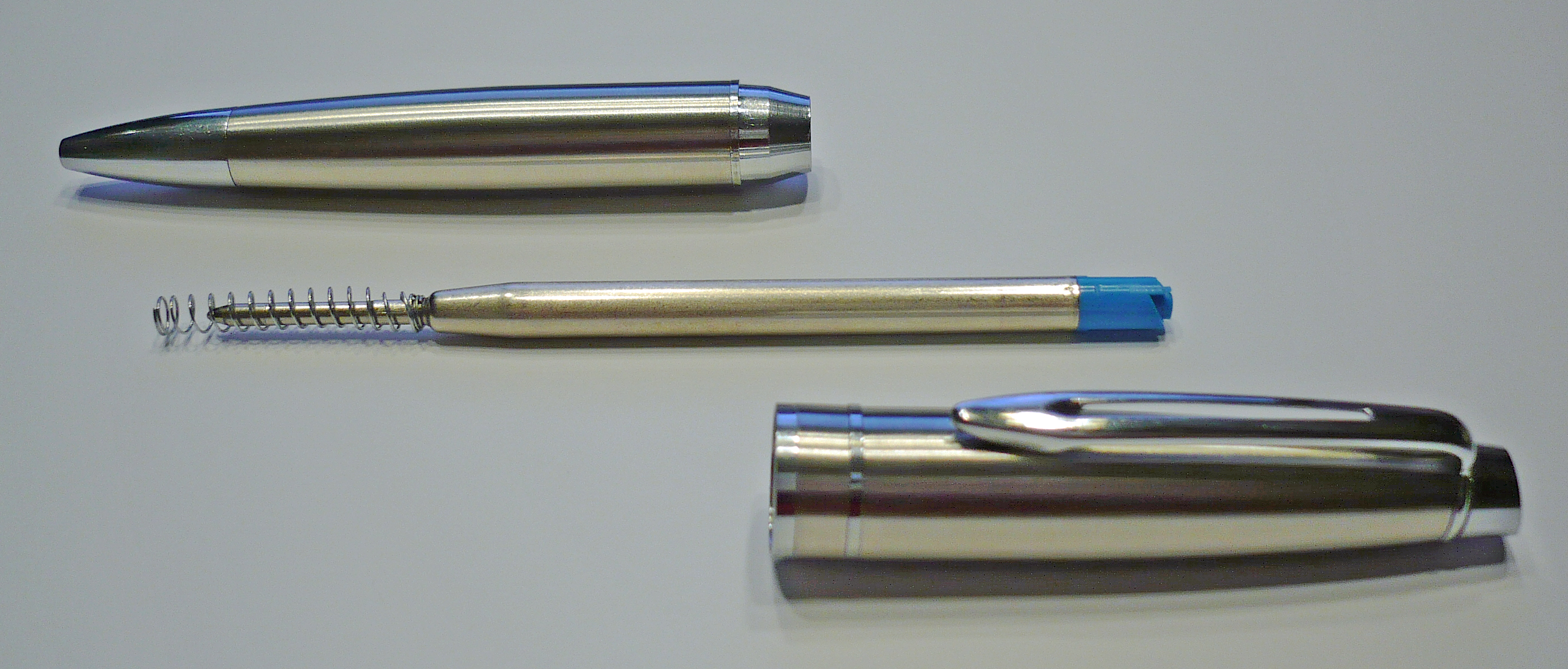 Jinhao 182 twist action stainless steel ballpoint pen disassembled. It uses Parker-style G2 large capacity refills. A blue writing G2 ballpoint refill is depicted in the center. The Jinhao 182 ballpoint pen is inspired by the Waterman Expert pen series and the pen dimensionally resembles the Waterman Expert twist action ballpoint pen. Dimensions for the Jinhao 182 twist mechanism ballpoint pen Length refill retracted: 142 mm Length refill exposed: 145 mm Top halve length: 66 mm Top halve diameter: 13.6 mm Barrel length: 76 mm Section diameter: 12.6 mm Section diameter: 12.6 mm tapers to 9.8 mm Total weight: 36 g (with a G2 type large ink capacity refill installed) Turns to expose or retract the refill: ⅔ turn